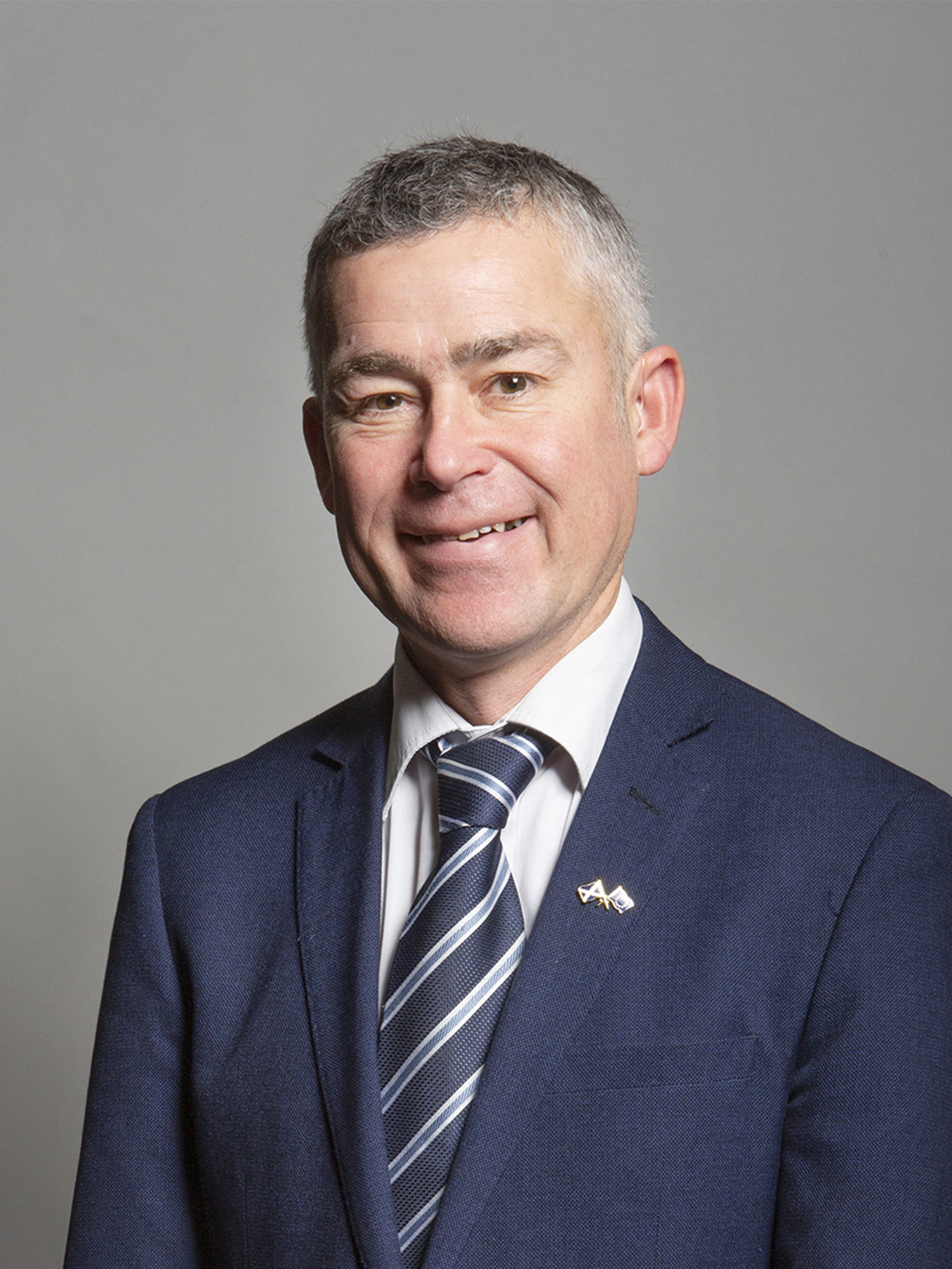 Official portrait of Alan Brown MP 3×4 portrait of Alan Brown